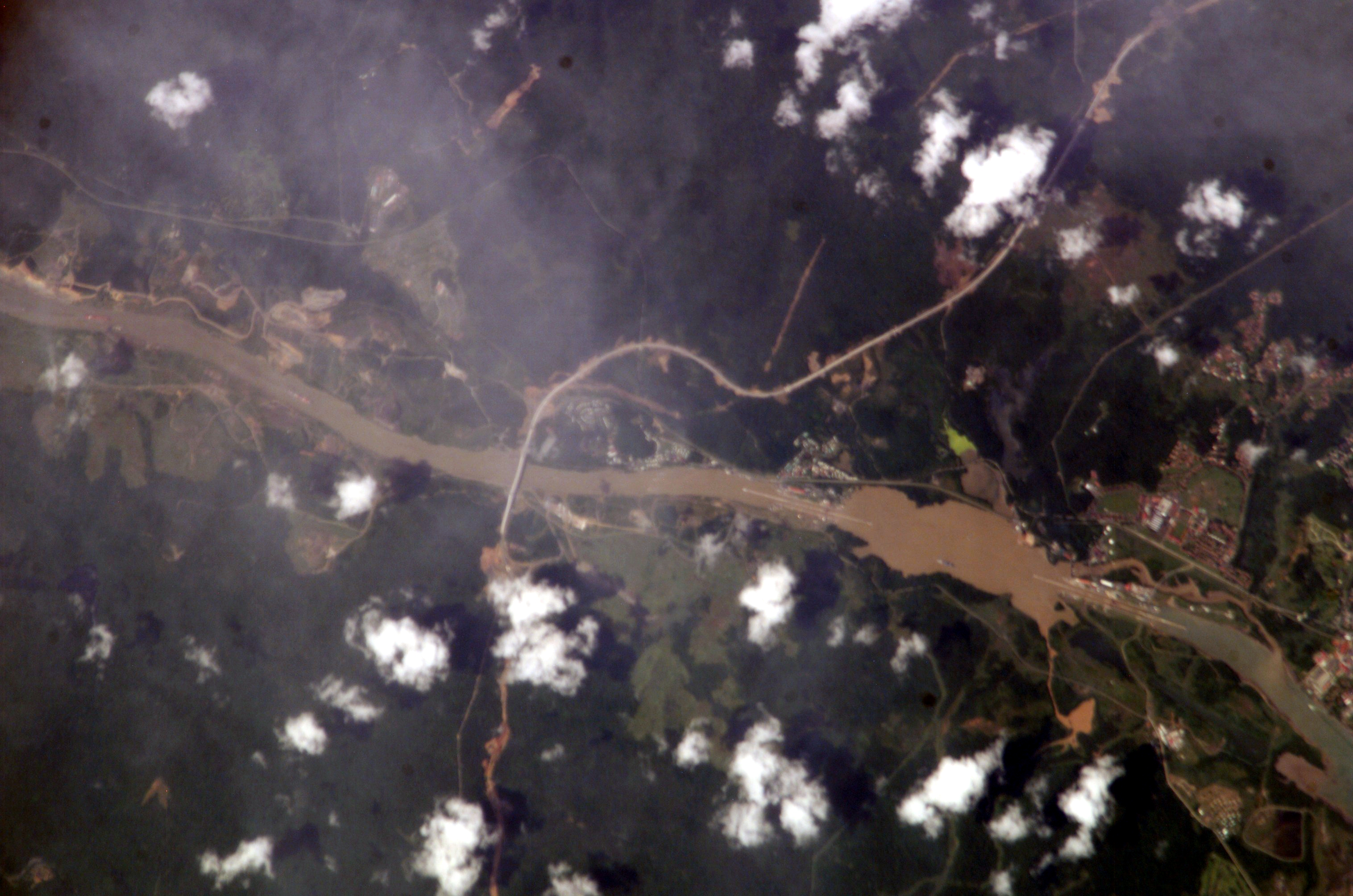 The Panama Canal can be seen from space, as this picture taken from the International Space Station demonstrates. The picture, taken in September, 2004 as part of Expedition 9, shows the south-eastern — Pacific — end of the canal. The approach from the Pacific is on the right (the south); this leads to the Miraflores Locks, and then to Miraflores Lake. On the left (north) end of the lake, in the centre of the picture, is the Pedro Miguel lock, which then leads to the Gaillard Cut, which runs left (north) under the Centennial Bridge towards the Río Chagres and Lake Gatún.